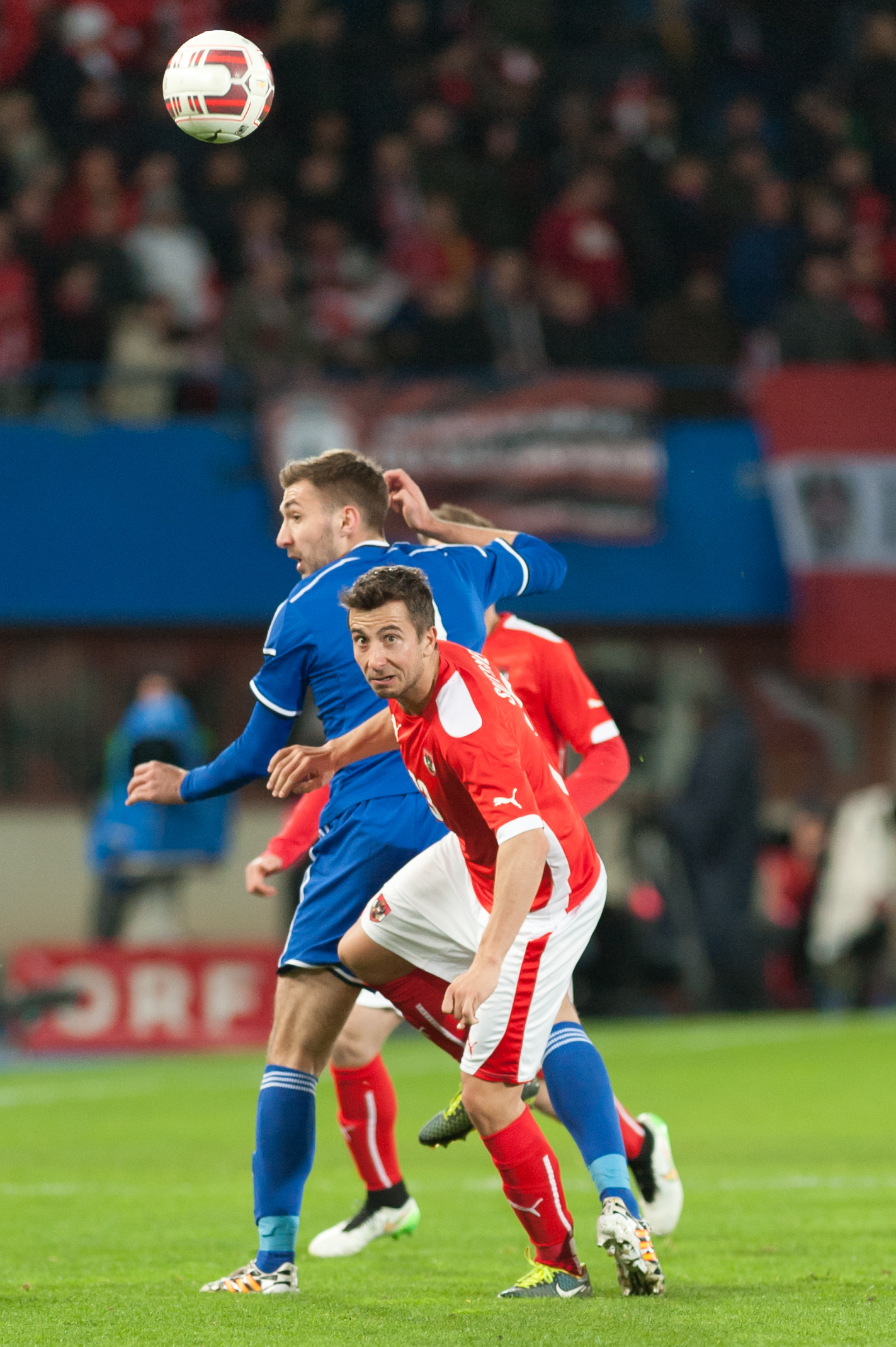 International friendly Austria vs. Bosnia and Herzegovina, 2015-03-31, Vienna